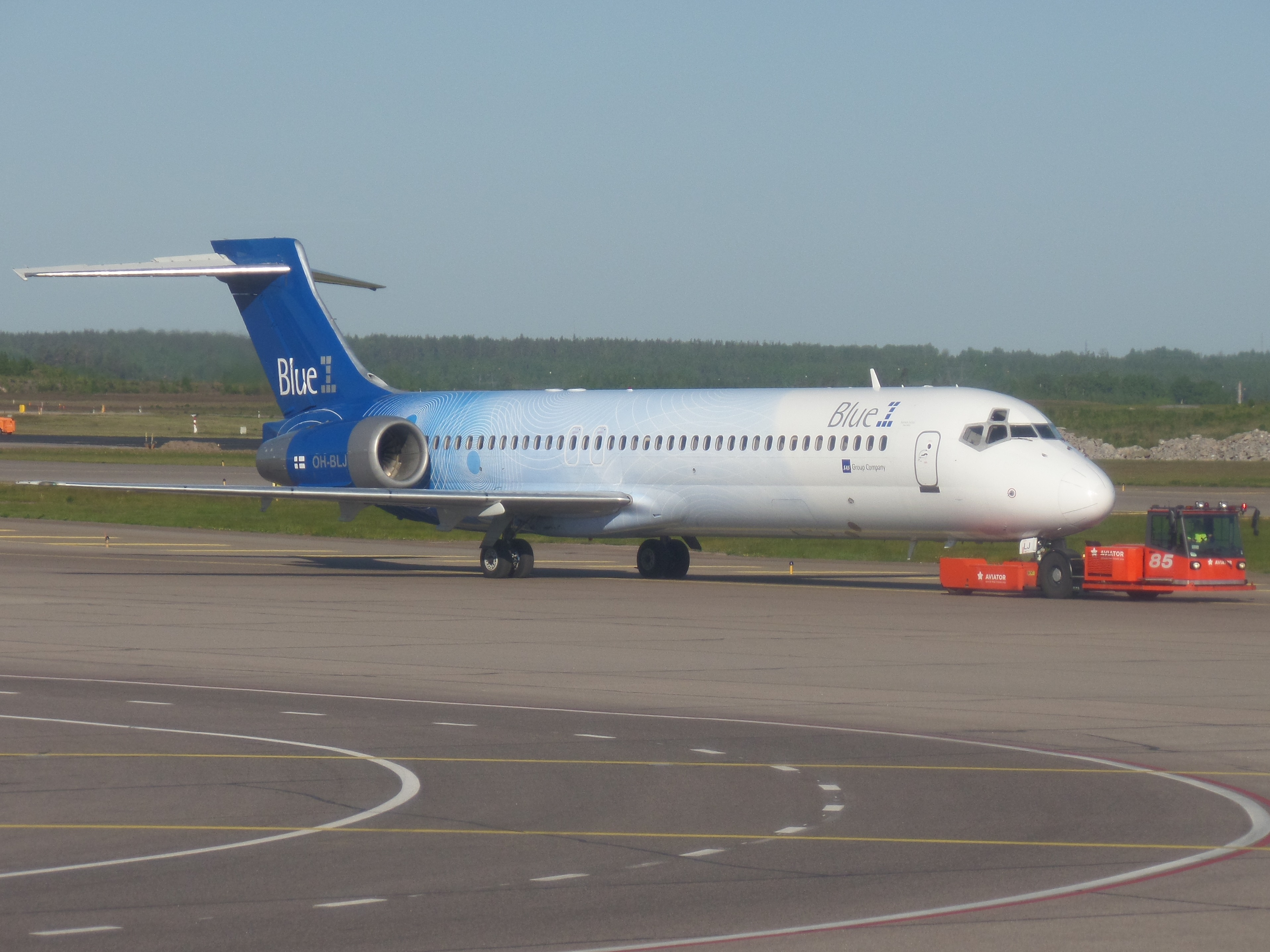 Blue1 Boeing 717-23S OH-BLJ at Helsinki-Vantaa Airport on 7 June, 2015.